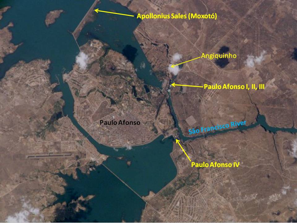 An annotated NASA overhead image of Paulo Afonso and the hydroelectric complex.